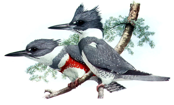 Belted Kingfisher, Megaceryle alcyon, female (left), male (right), offset reproduction of watercolor